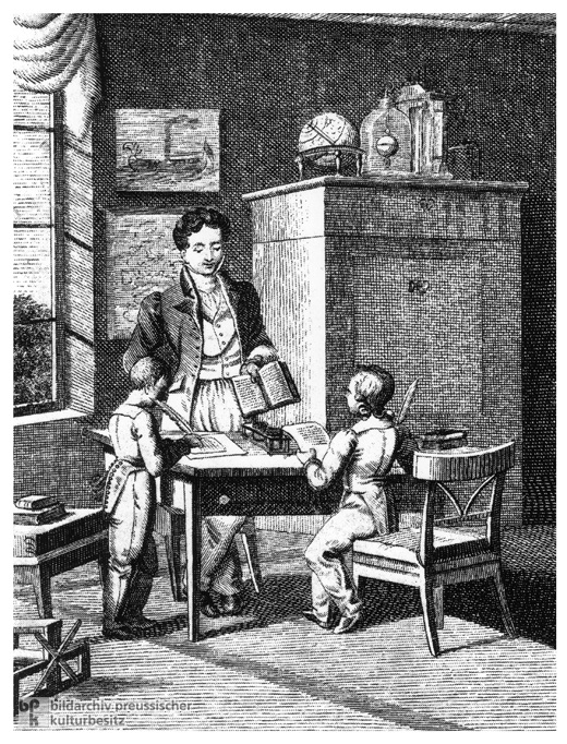 Starting in the late 18th century, a so-called Bildungsbürgertum – an educated bourgeoisie – developed in the German states. This class defined itself more on the basis of education than material possessions. Members of this class were often employed as civil servants, at universities, or in the free professions. Mindful of how important their education was for their own careers. In this lithograph two boys work with a tutor, who patiently explains a lesson to them. The surroundings are suggestive of an educated household. Lithograph, c. 1820.